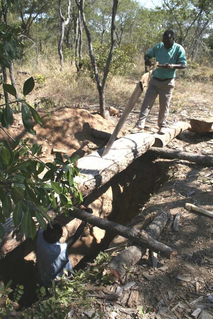 "sawmill" near Kalomo town, southern province, Zambia